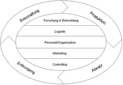 Wertschöpfungskreis (In Anlehnung an GÜNTHER 2008)